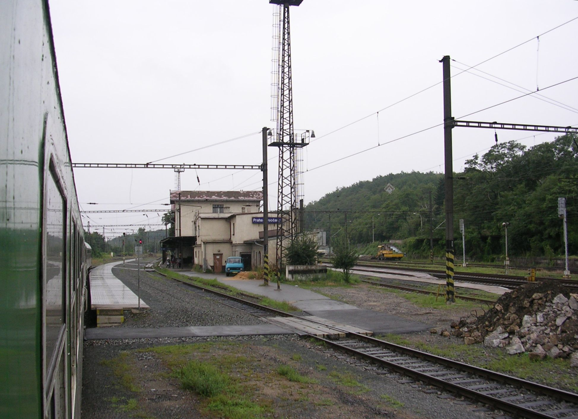 Prague-Vysočany, the Czech Republic. A train station Praha-Vysočany.